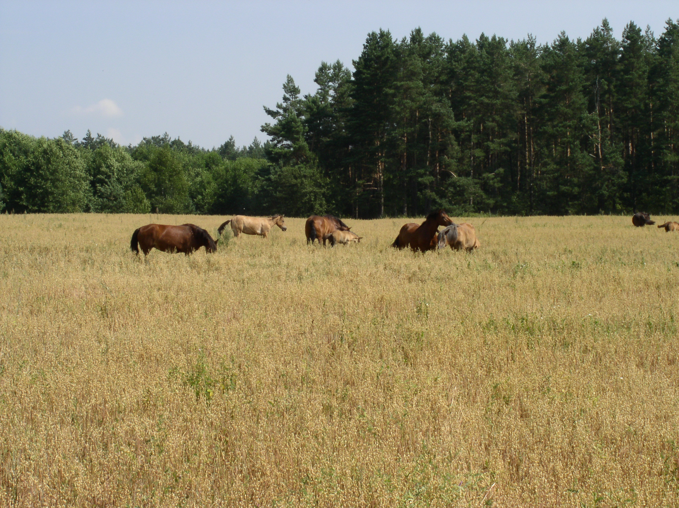 Horses. Minsk Province, Belarus